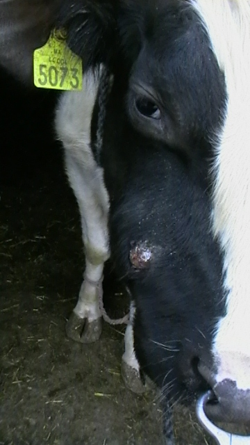 actinomycosis of a 3-years-old bull, 2-months evolution : bony swelling of the right maxilla. Walon: actinomicôze d' on gayet d' 3 ans, k' a duré deus moes : houzaedje del droete mashale (portrait saetchî pa L. Mahin).